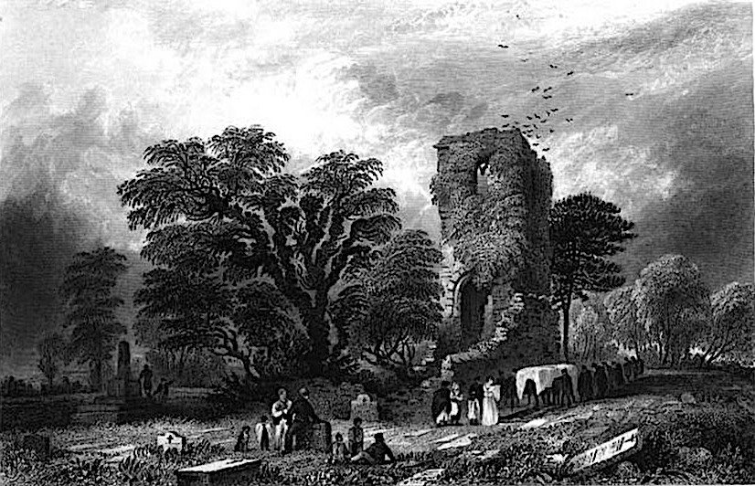 Engraved plate